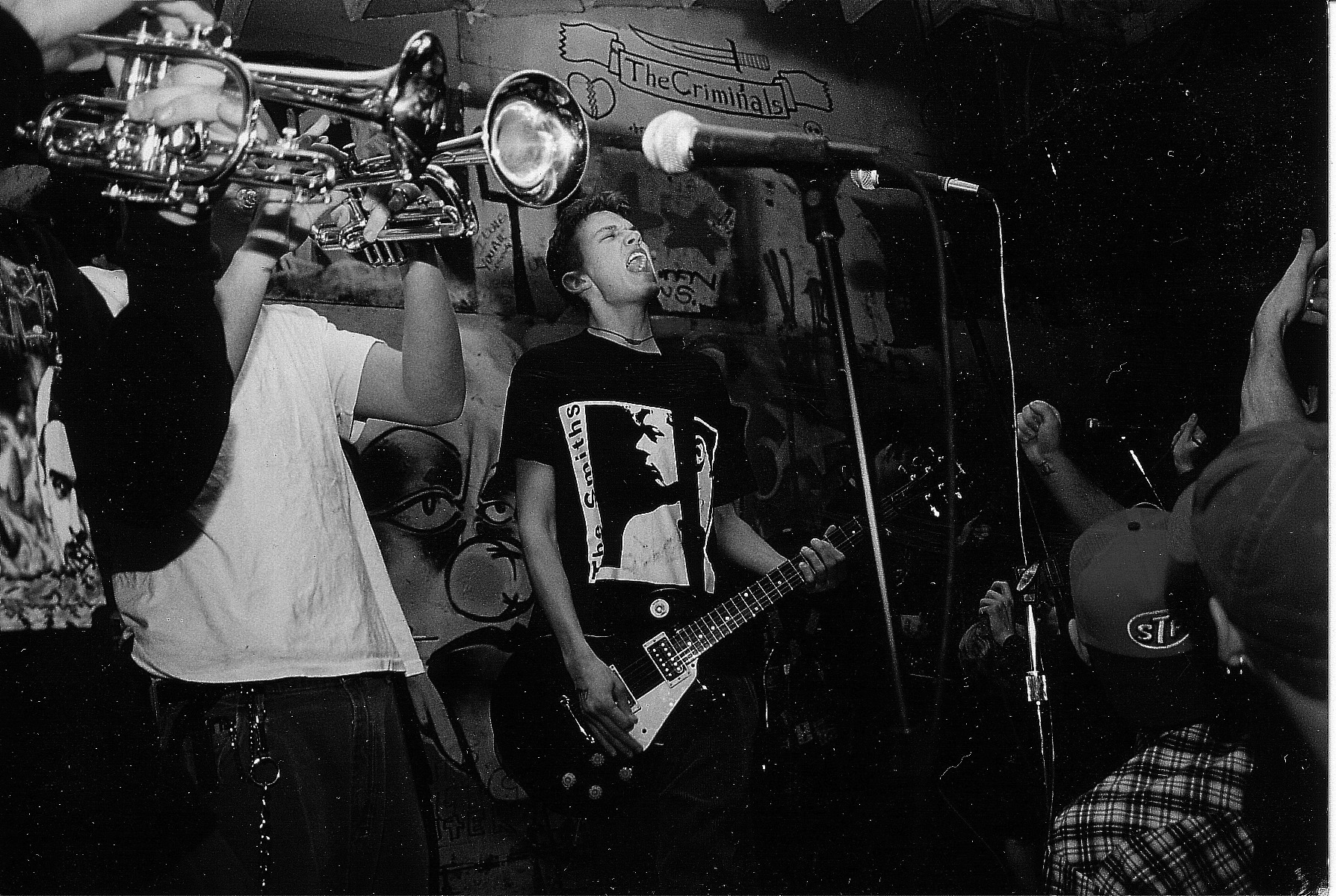 Link 80 at 924 Gilman street in 1997. Matt Bettinelli-Olpin (guitarist).